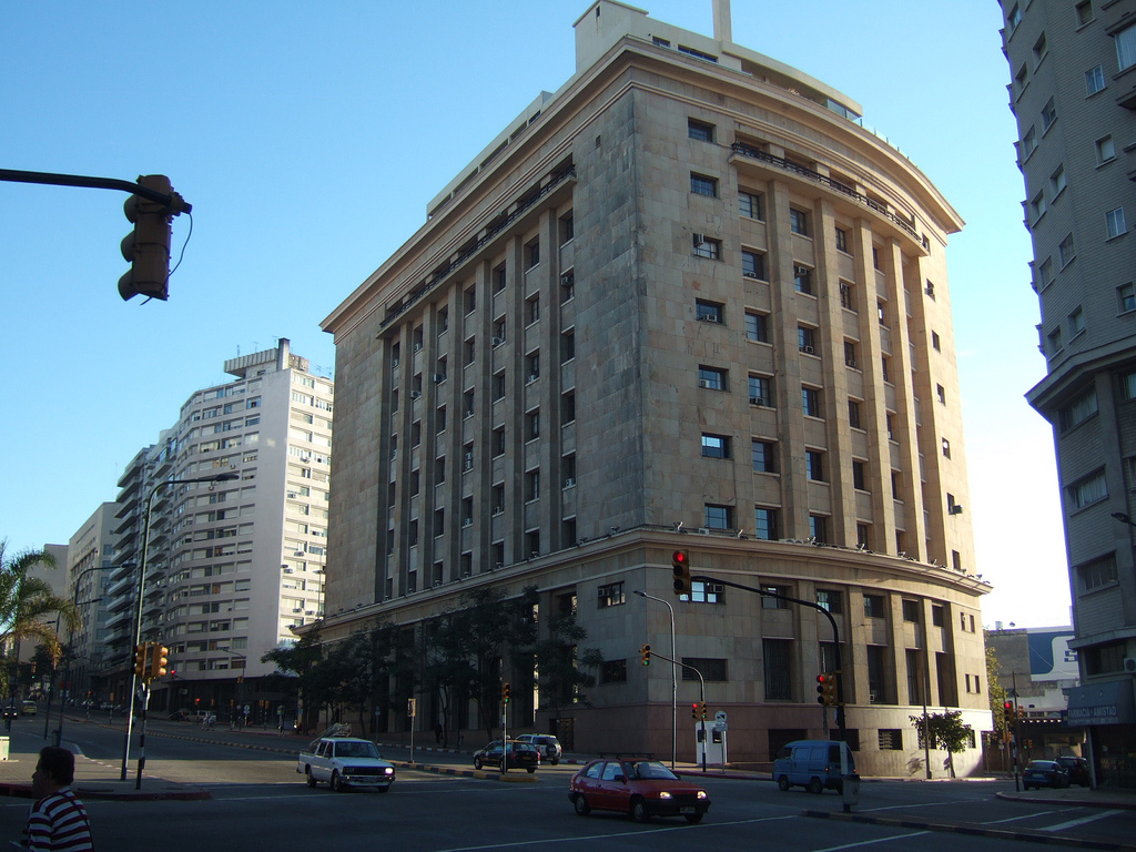 Libertador Avenue, Montevideo, Uruguay.